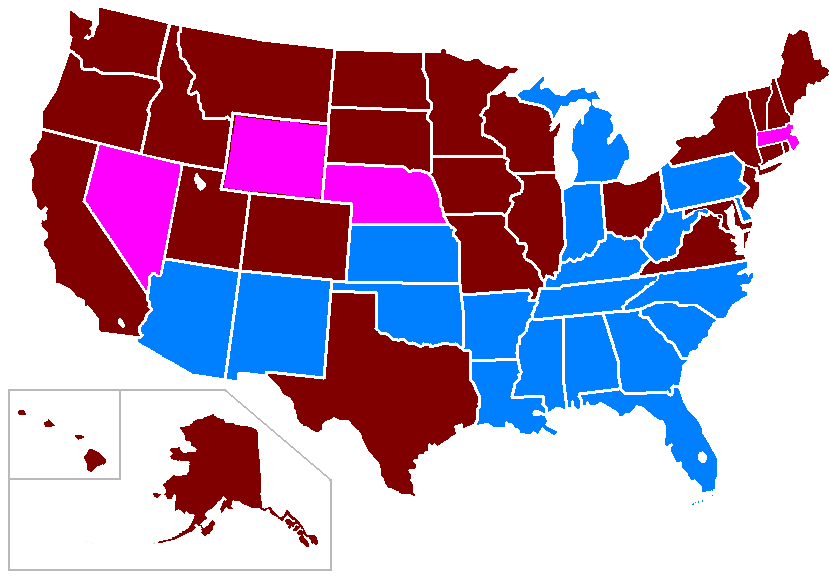 Map of which states require 1 or 2 license plates on passenger vehicles State requires both front and rear plates. State only requires rear plate. State requires rear plate only, for some passenger vehicles.